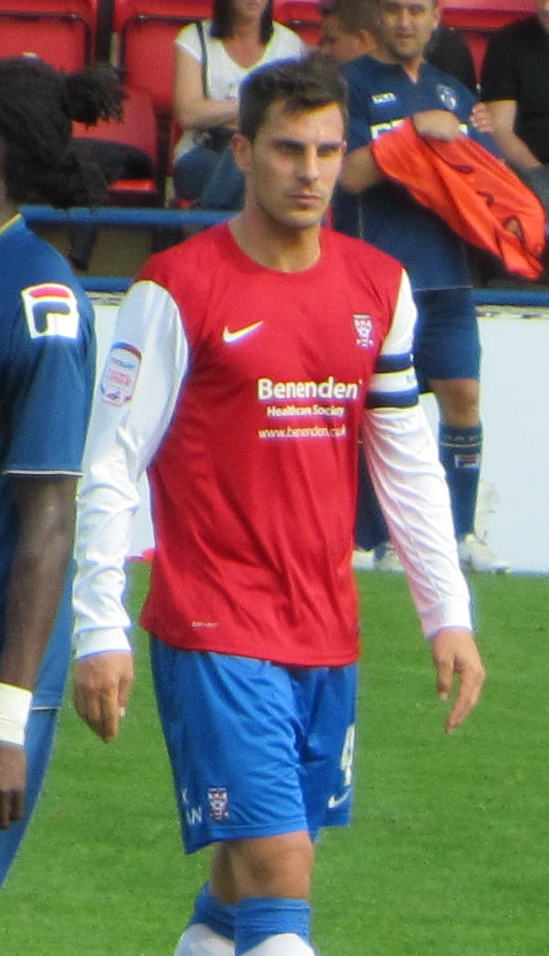 Chris Smith playing for York City against Oldham Athletic at Bootham Crescent, York on 21 July 2012